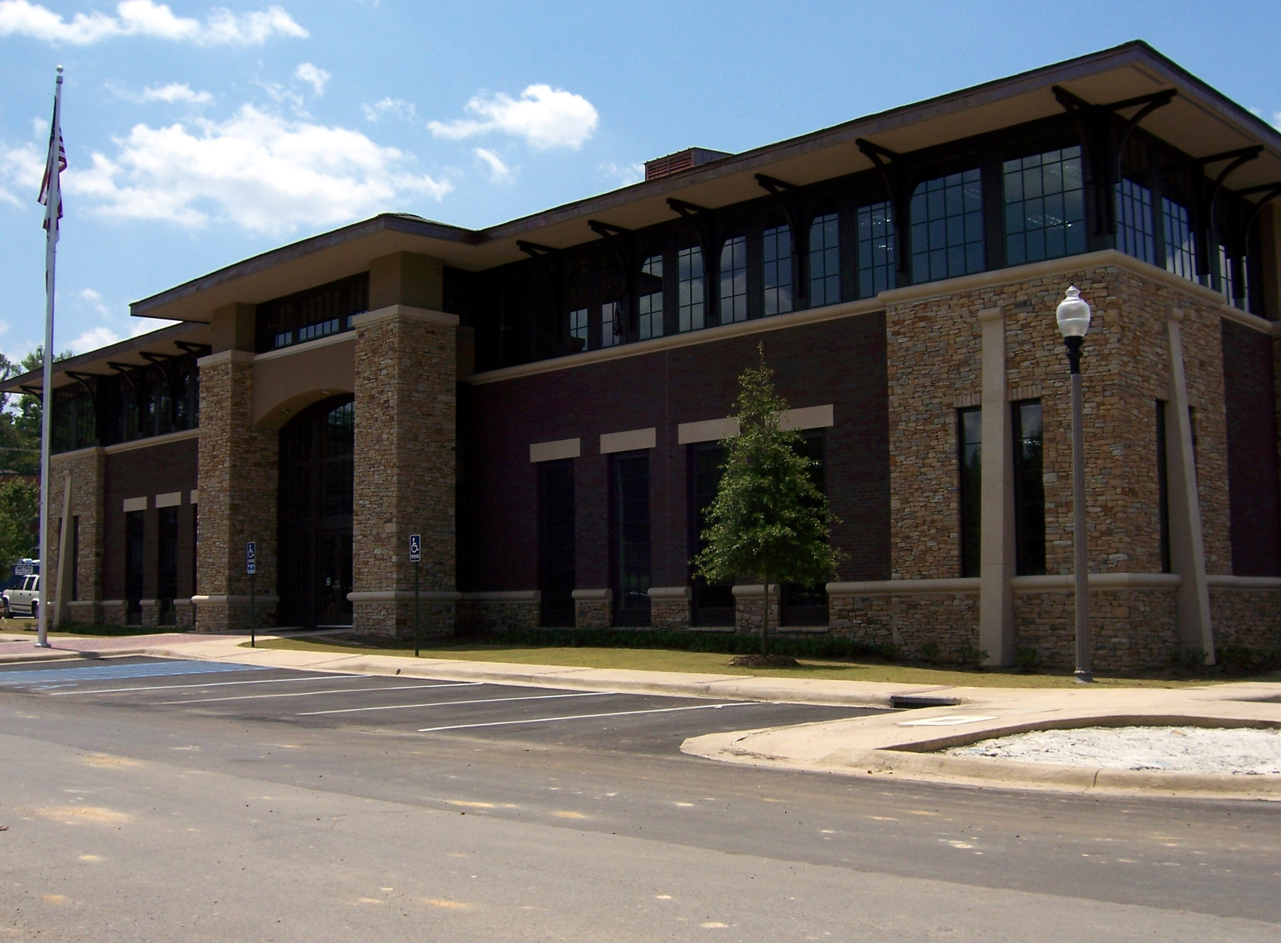 This image is of the new Board of Education for the Mountain Brook School System in Mountain Brook, Alabama.